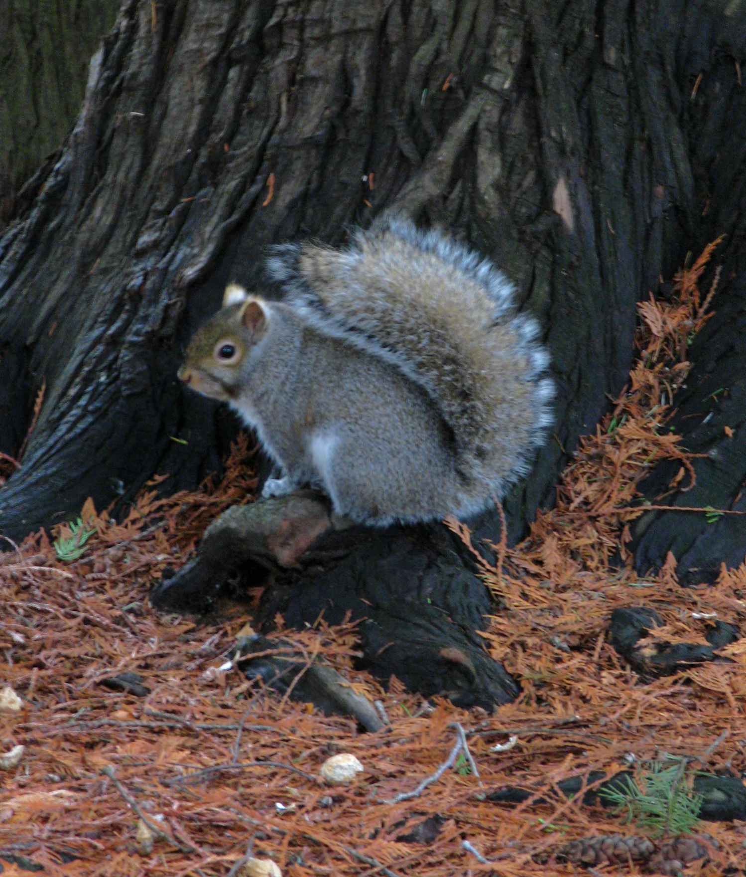 Grey squirrel in Stanley Park, Vancouver, Canada